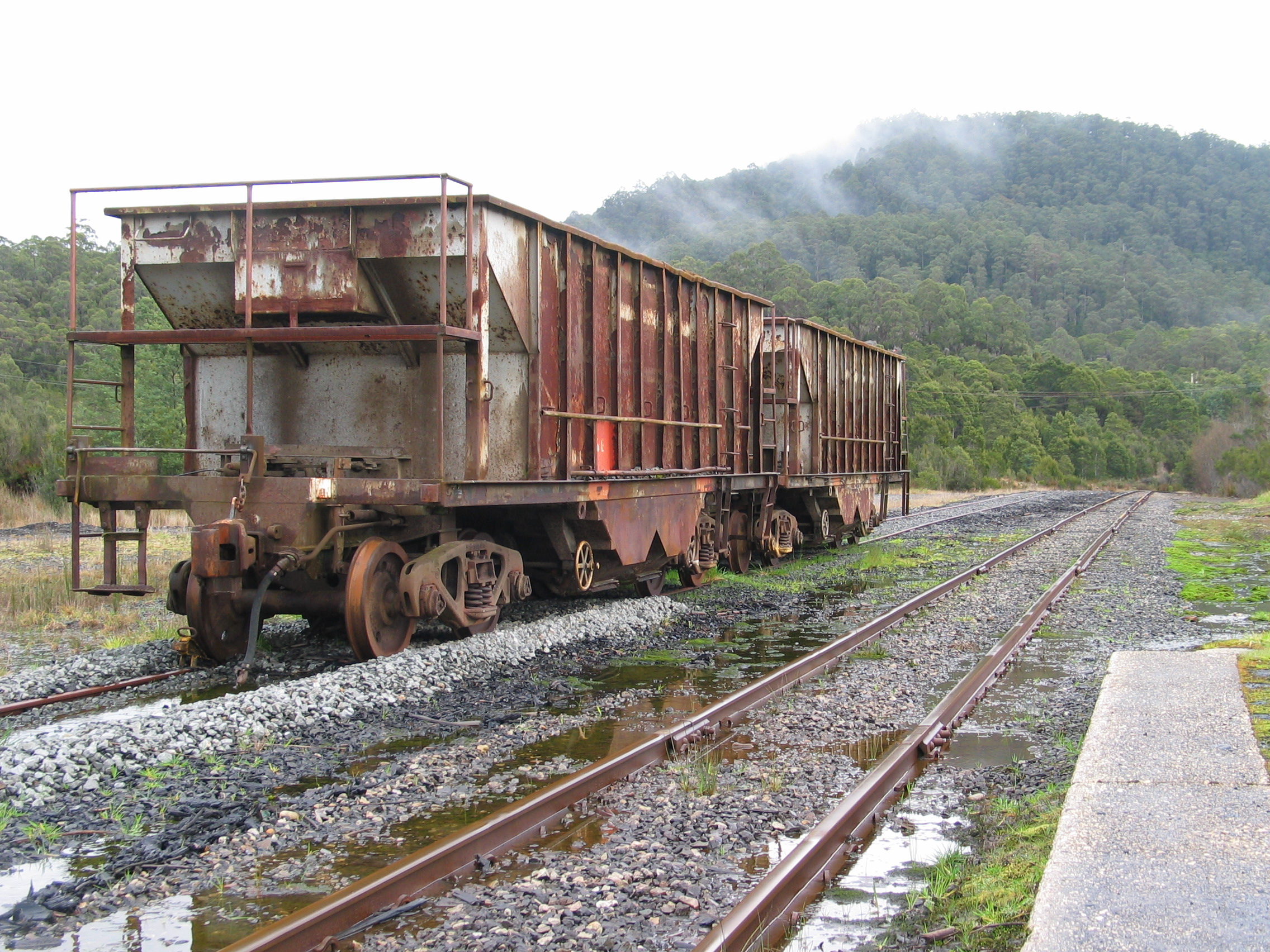 Abandoned railway trucks, Rosebery Station, Melba Line, Rosebery Tasmania, Australia.